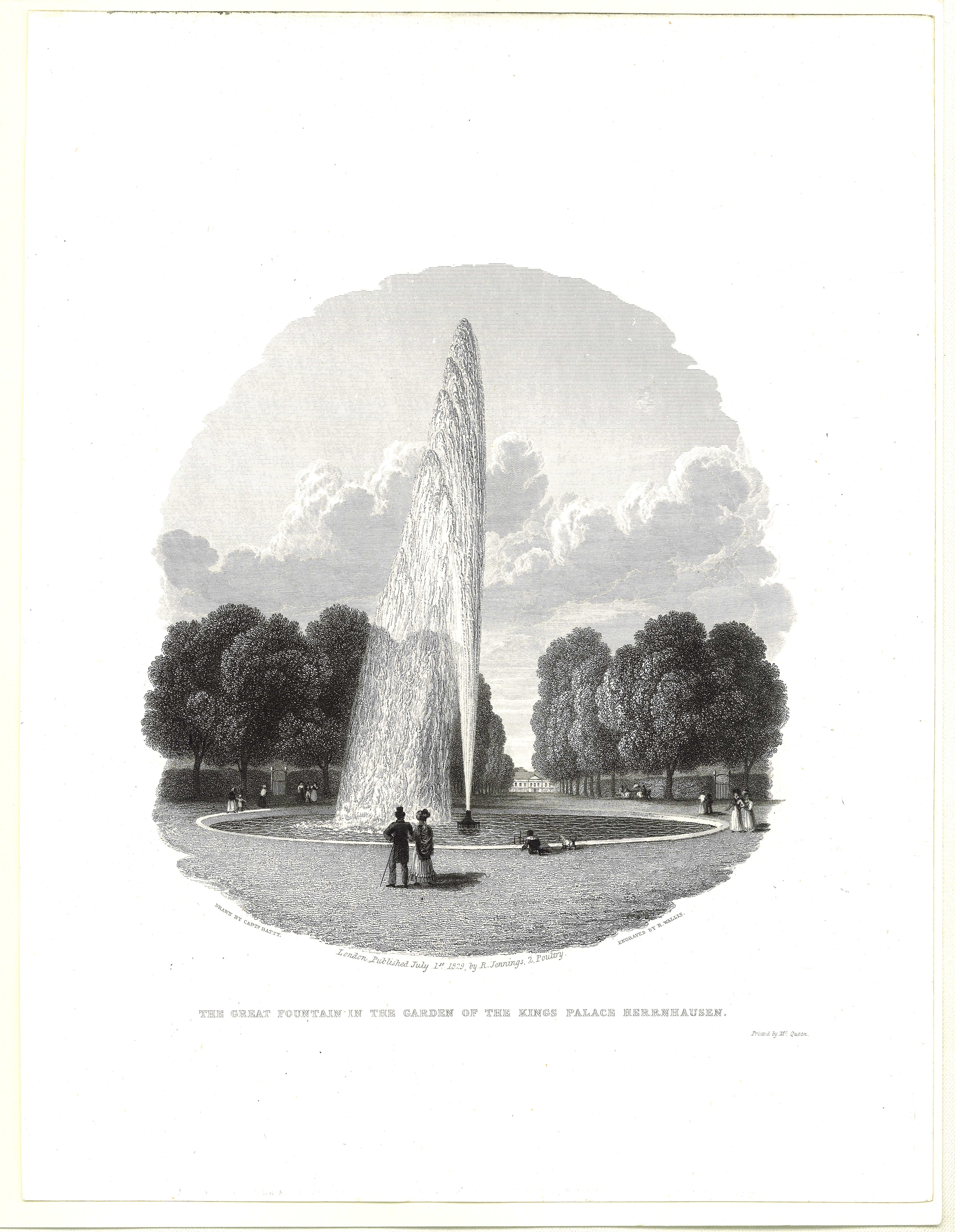 "The Great Fountain in the Garden of the Kings Palace Herrenhausen" - 1825. In the background the Castle of Herrenhausen which had been modificated just 4 years earlier for the last time by Laves in classicistic style.